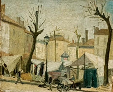 Edmond Boissonnet